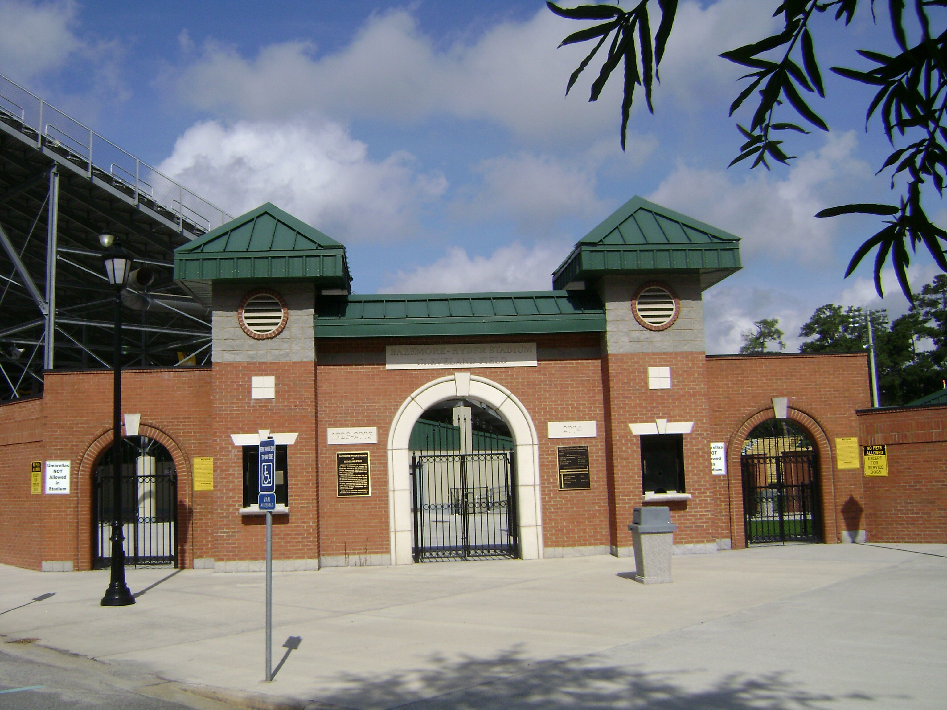 Bazemore–Hyder Stadium in Valdosta, Lowndes County, Georgia